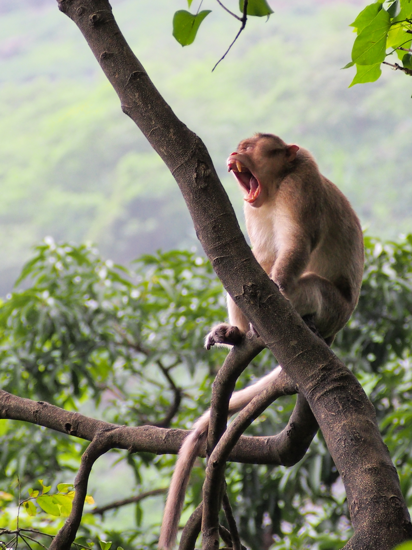 Rhesus Macaque, Malanggad, Maharashtra